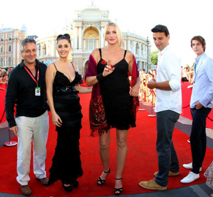 Odessa International Film Festival 2012. Daryl Hannah